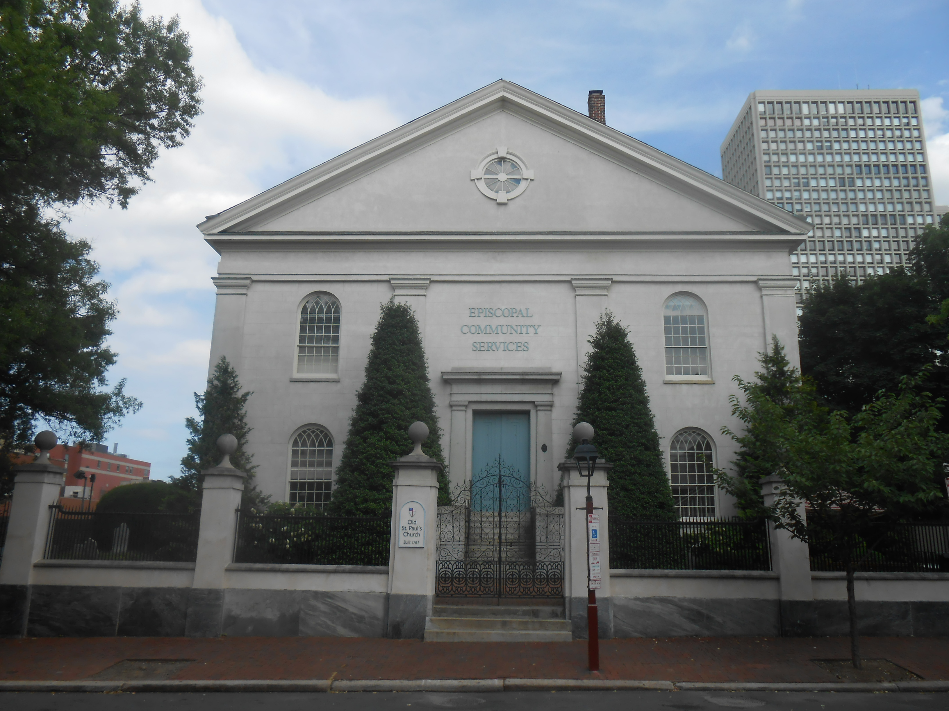 Old Saint Paul's Church, 225 South 3rd Street, Philadelphia, PA